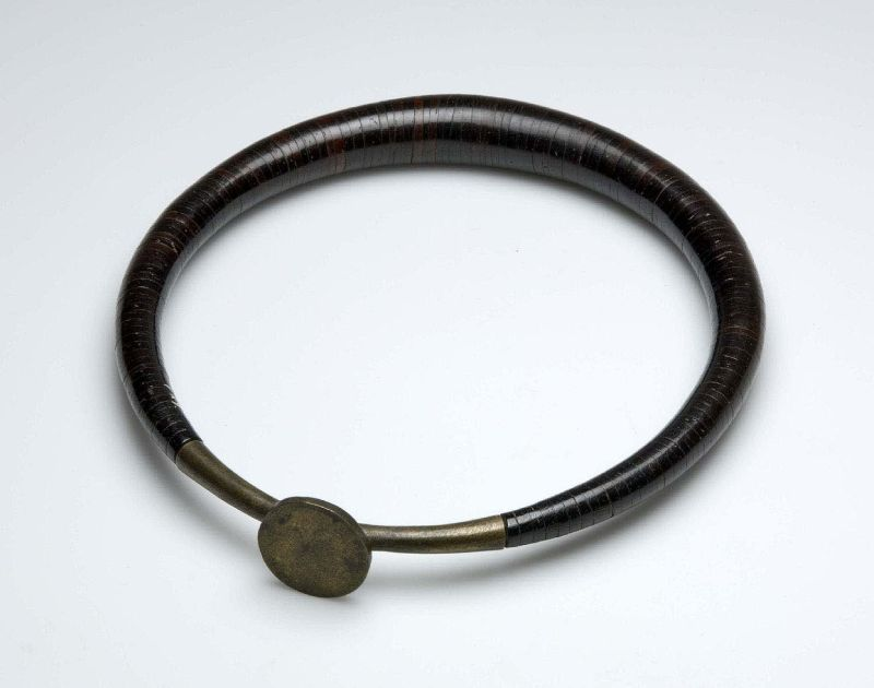 Neck ornament